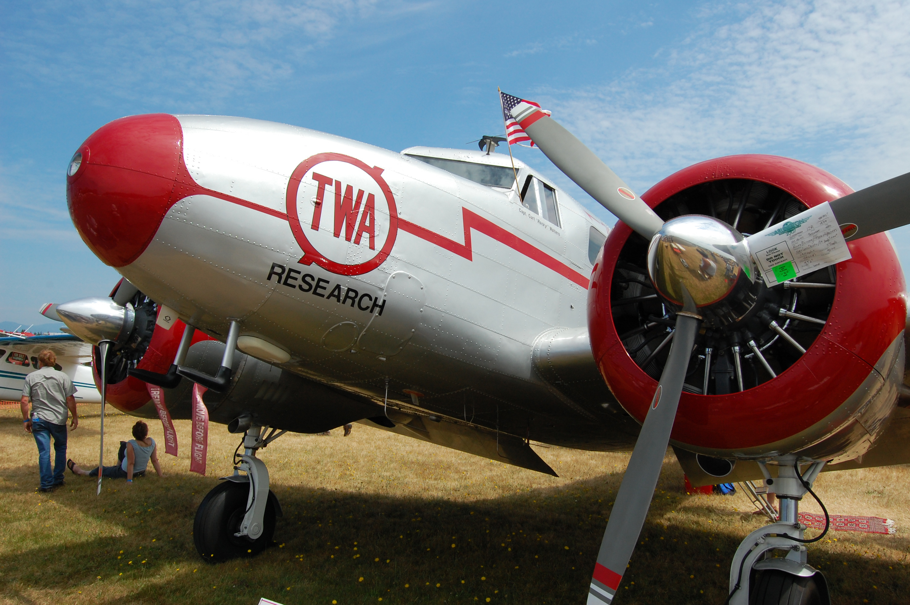 Lockheed 12A NC18137 at the 2007 Arlington Fly-In in Arlington, Washington. Built in 1937 for Continental Air Lines, this airplane was transferred in 1940 to Transcontinental & Western Air, who used it as an executive transport and research aircraft. One of its frequent pilots was TWA co-founder Paul E. Richter; his daughter, Ruth Richter Holden, acquired the airplane in 2005 and restored it to its TWA appearance.